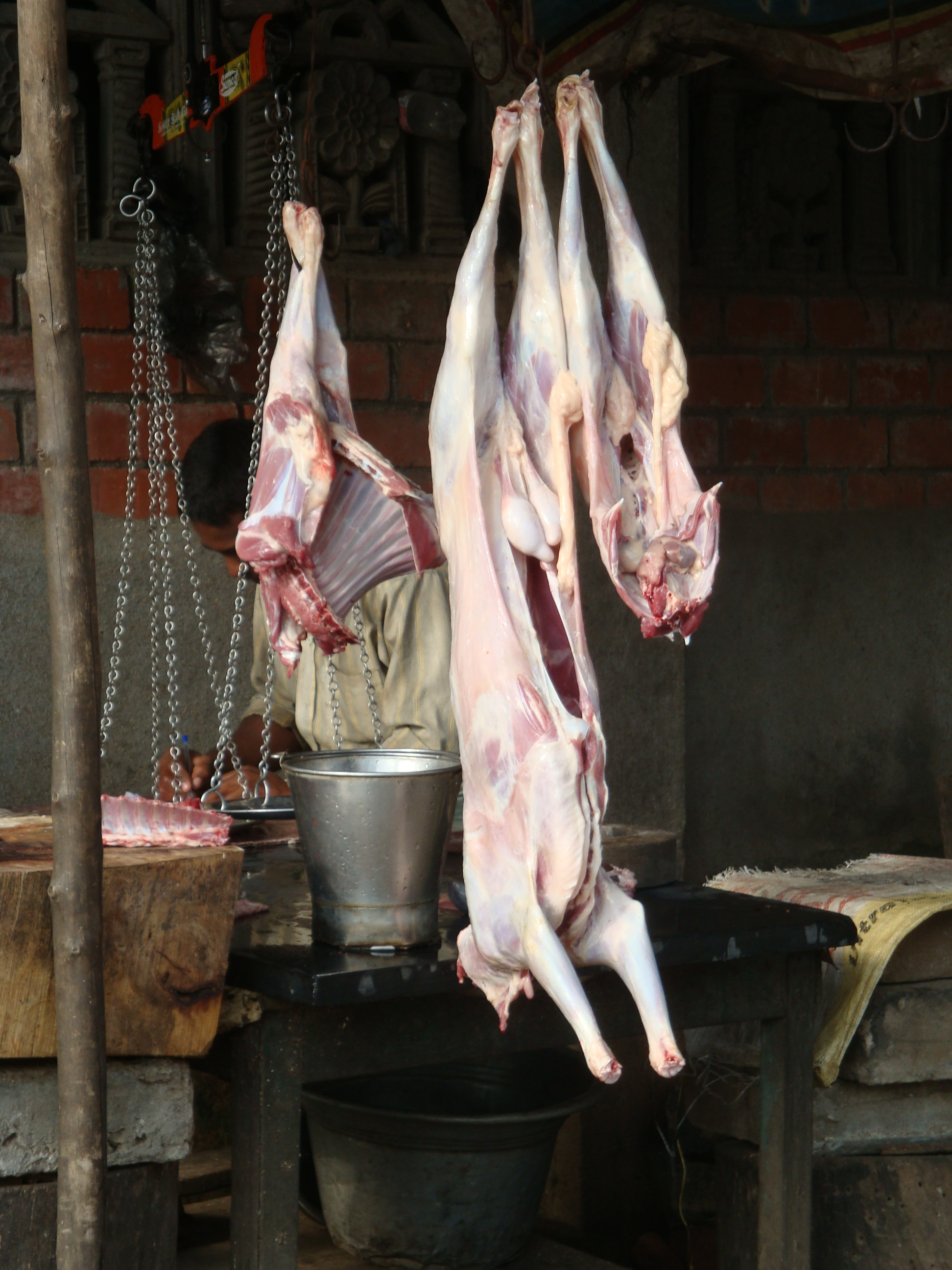 Roadside meat vendor in India